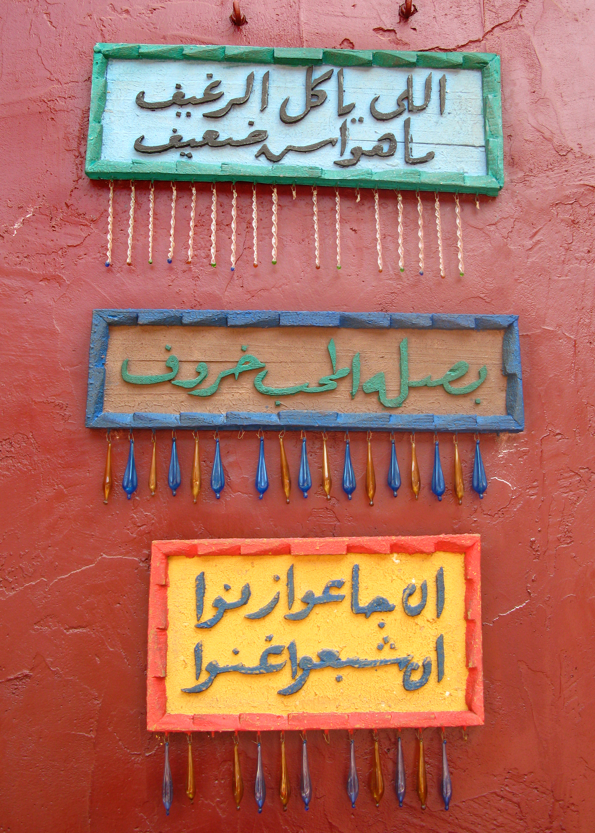 Signs of Egyptian proverbs at a Restaurant in Sharm el Sheikh